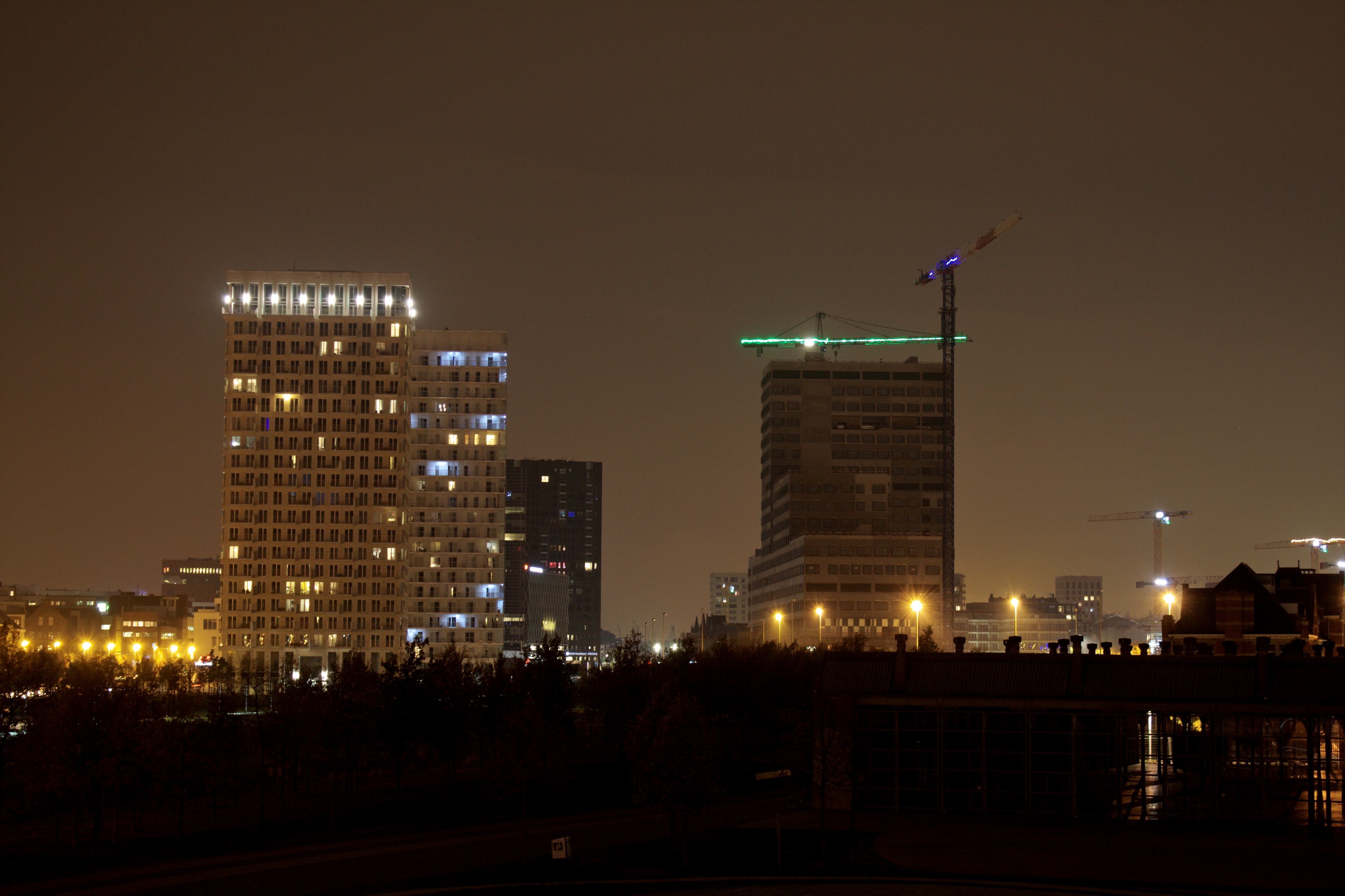 ZNA Cadix under construction (right), Lichttoren (front left), Parktoren and FOD Financiën Building seen from Viaduct-Dam on the 22nd of November 2018.